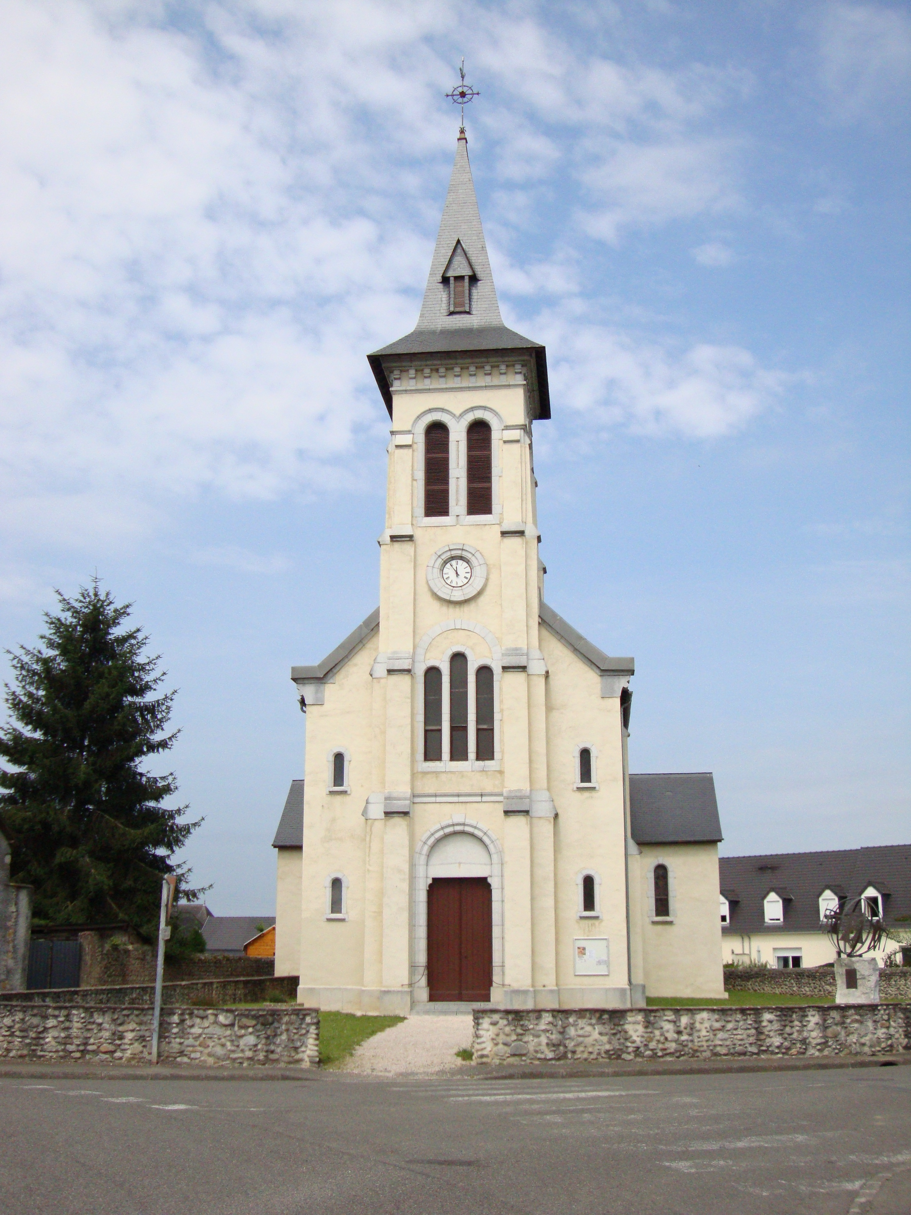 Goès (Pyr-Atl, Fr) church facade and tower